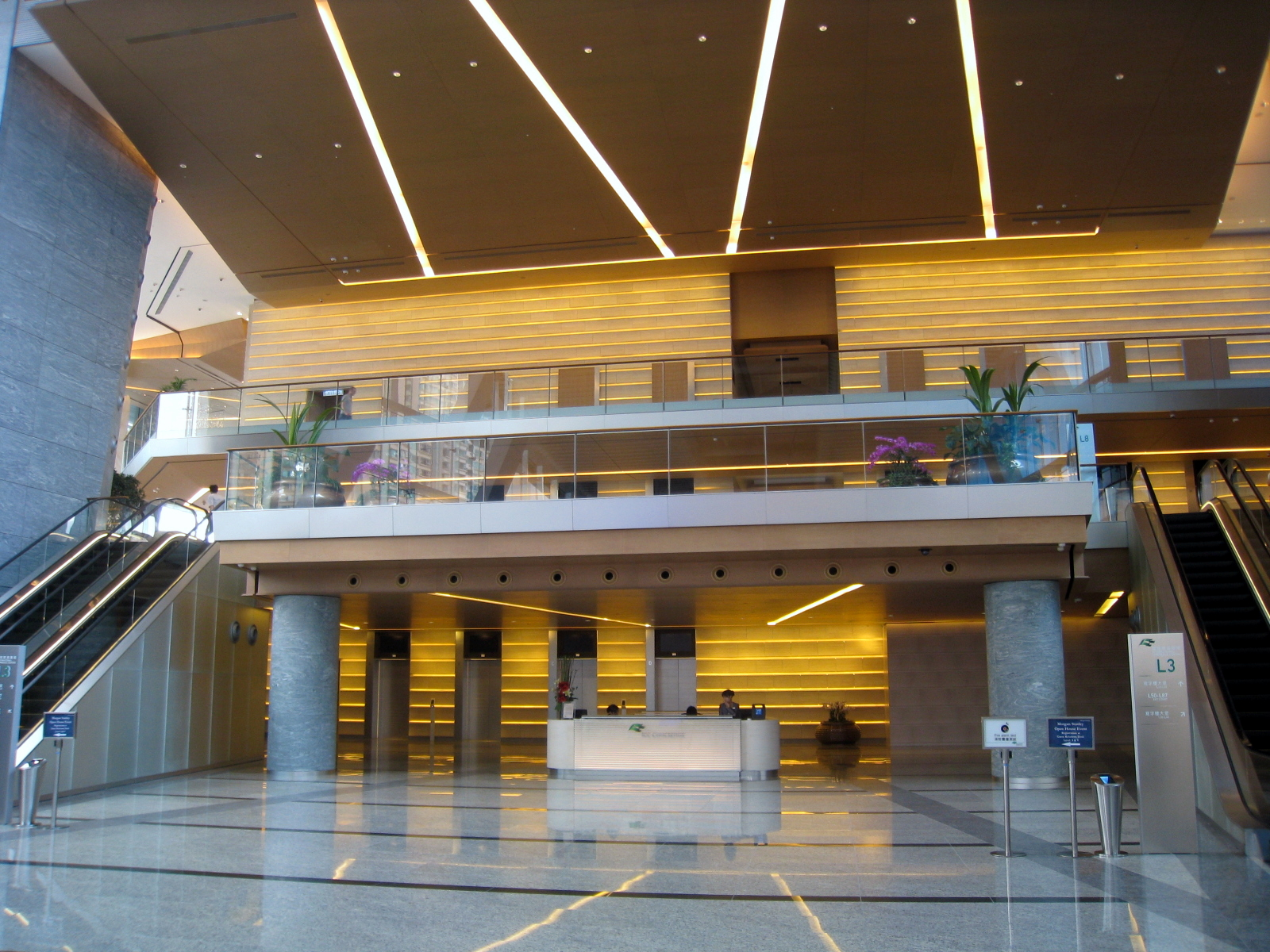 Access to International Commerce Centre 環球貿易廣場